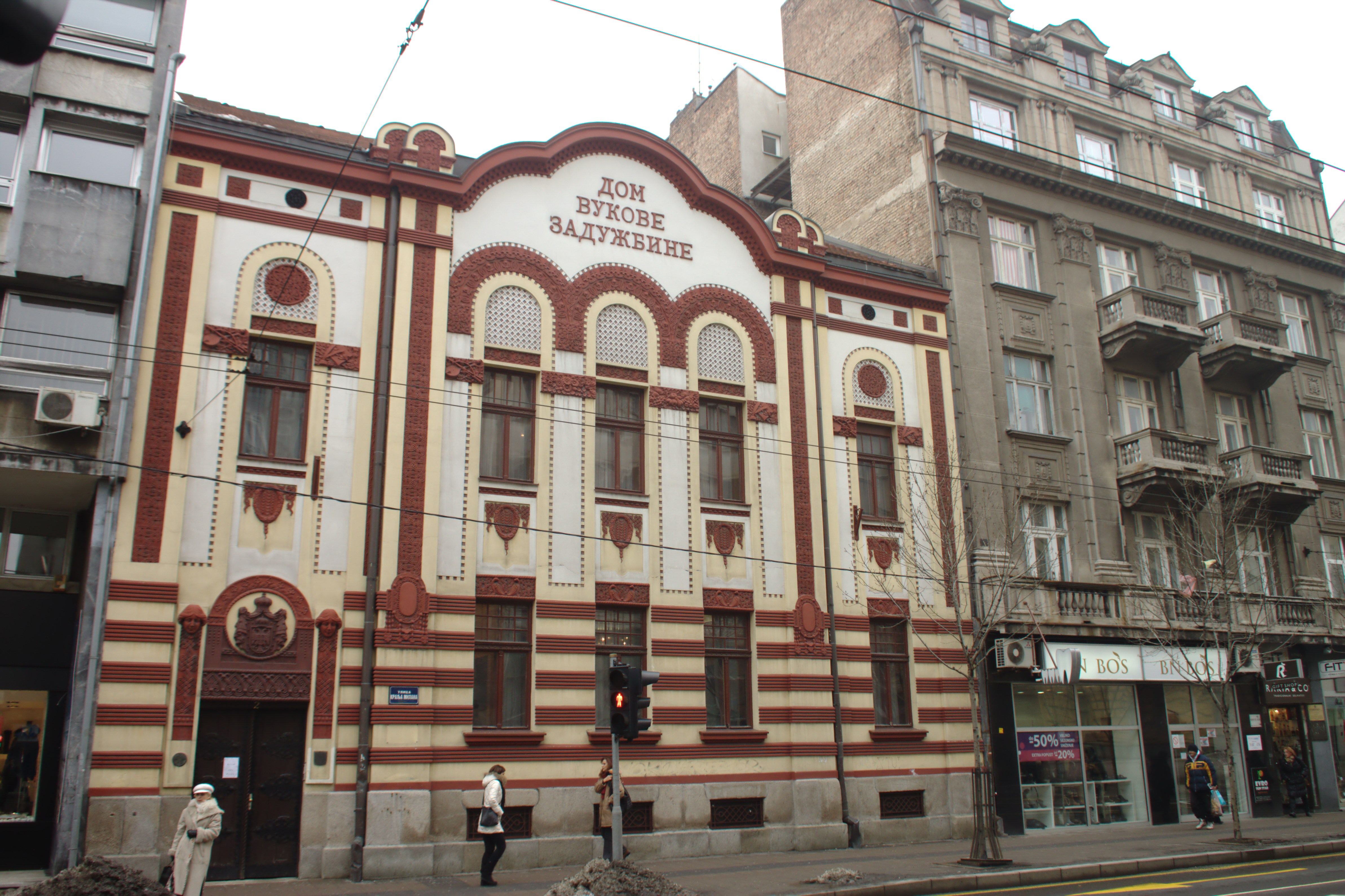 House of the Foundation of Vuk Karadžić (Vukova zadužbina) in Belgrade at Terazije Street